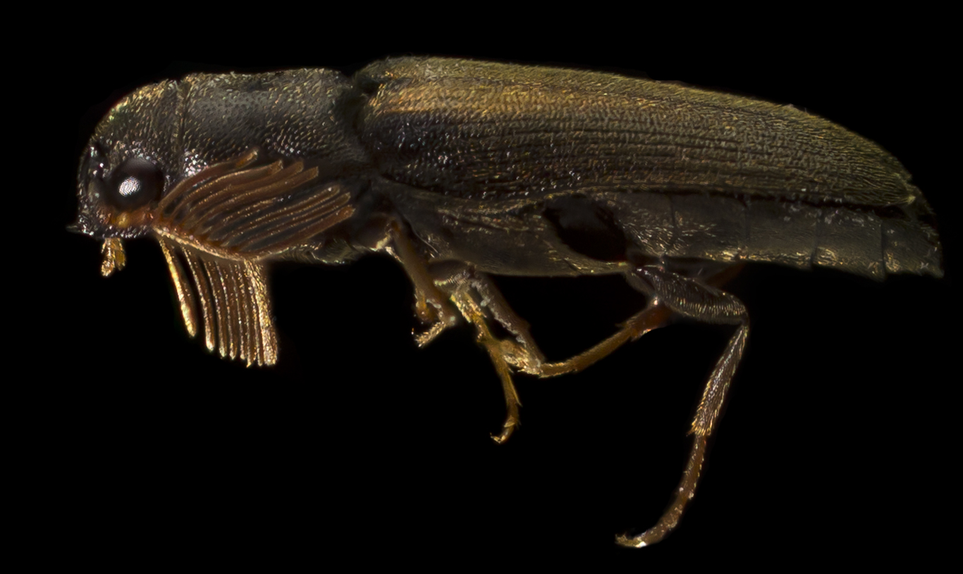 False Click Beetle (Isorhipis obliqua)